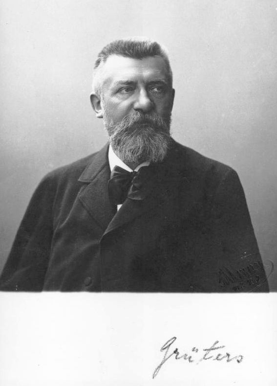 German conductor August Grüters (1841-1911)